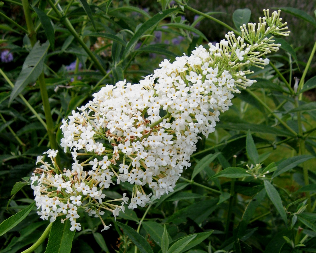 Photo taken at the Longstock Park Nursery, UK, NCCPG national buddleja collection holder, August 2012